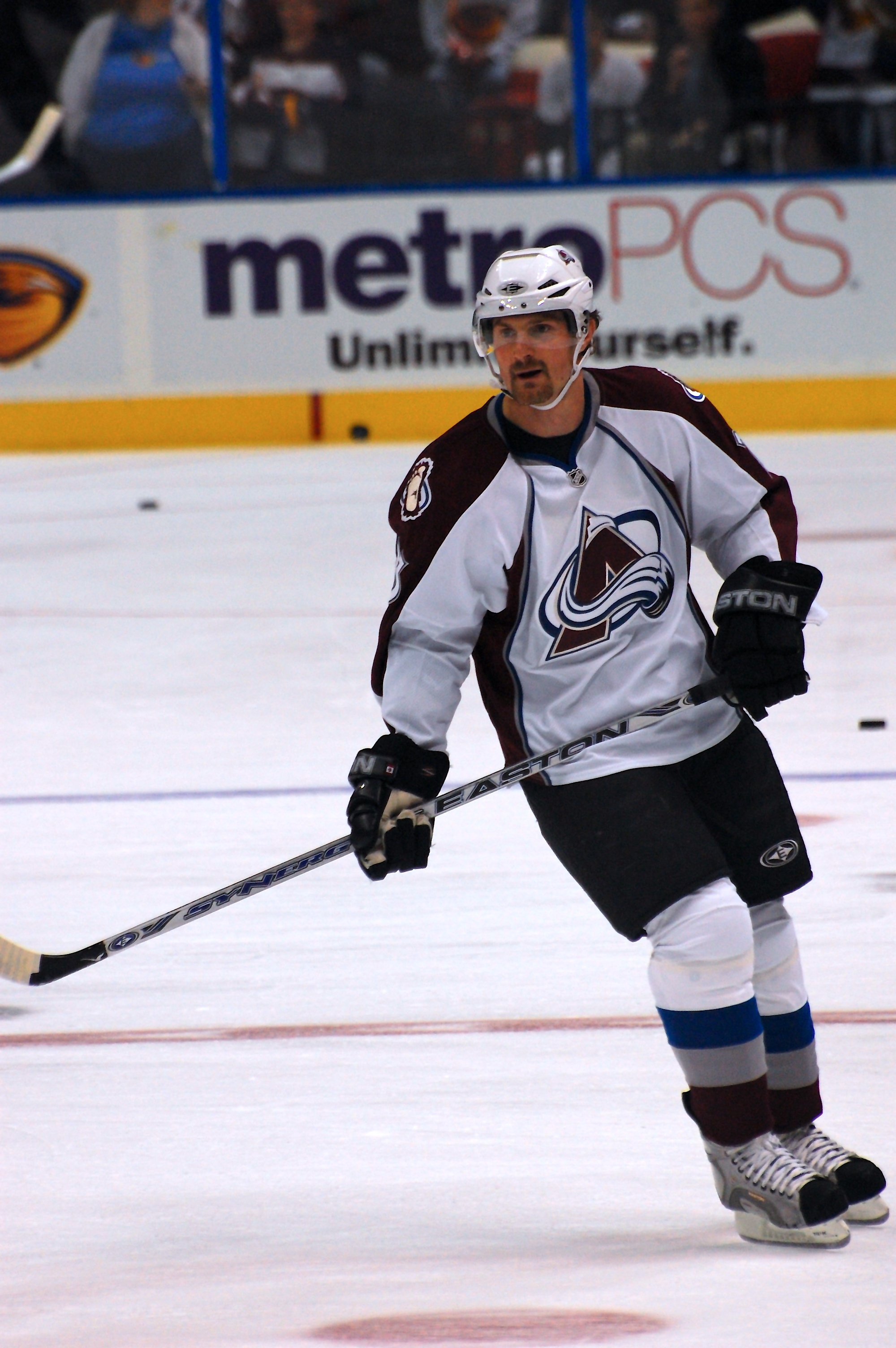 Milan Hejduk, Czech ice hockey player of the Colorado Avalanche Picture taken during the warmups of the Avalanche-Thrashers game at the Philips Arena, on March 11th, 2008.